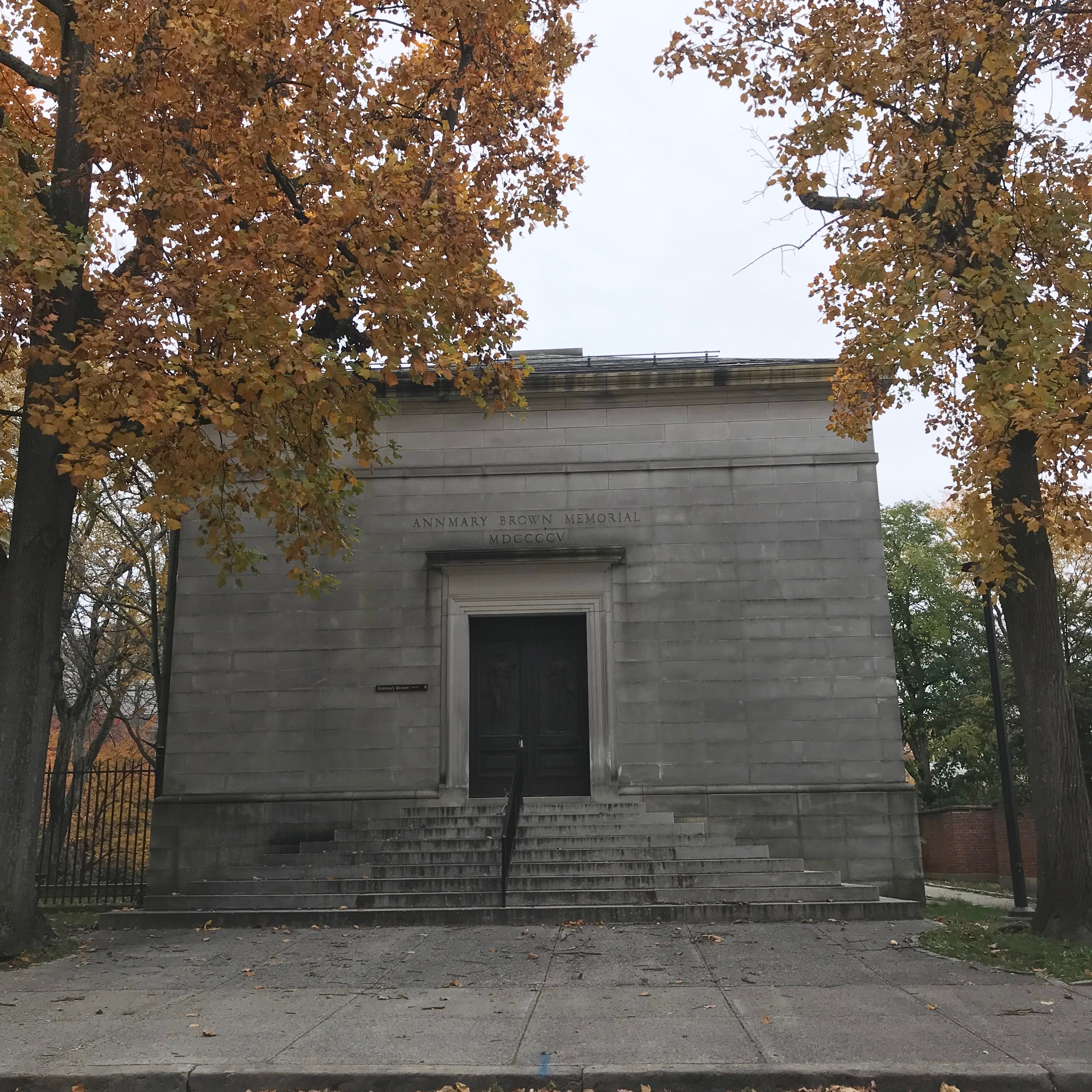 Annmary Brown Memorial at Brown University